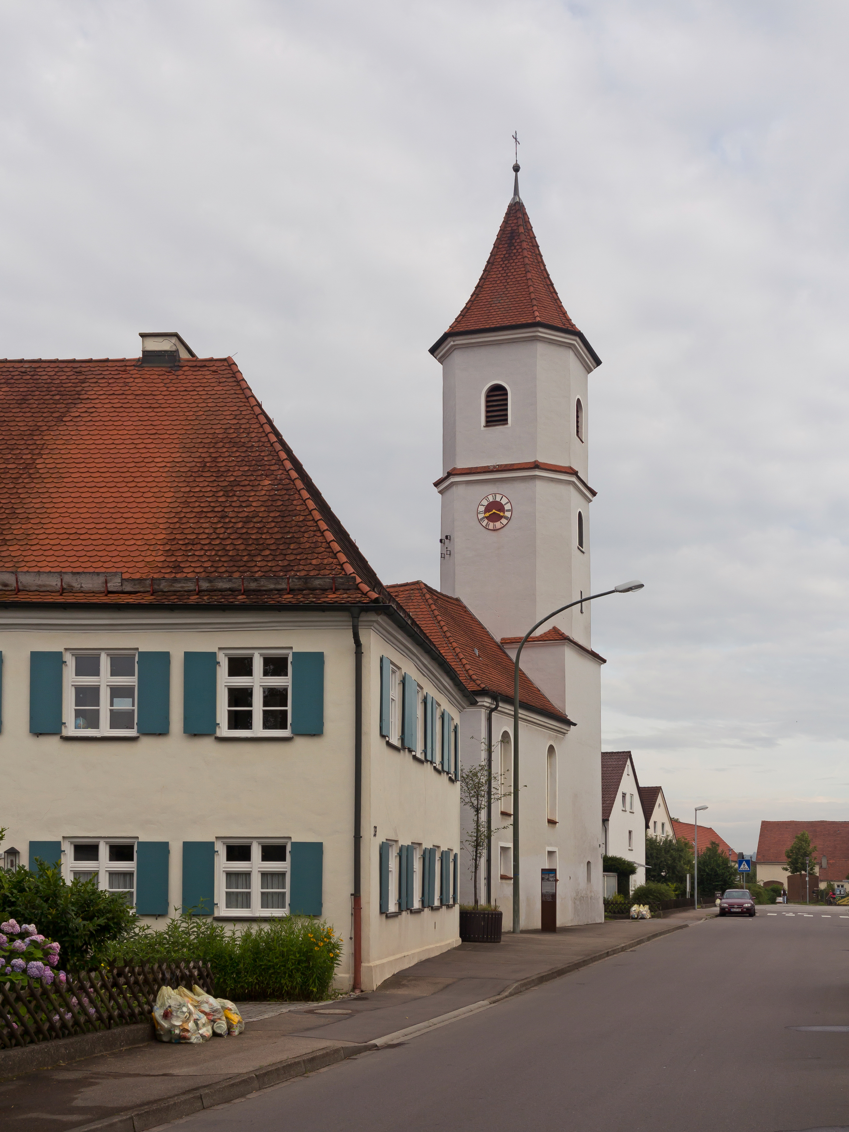 Burlafingen, church of St. JamesThis is a photograph of an architectural monument.